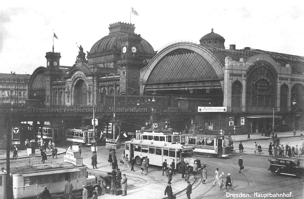 Dresden Hauptbahnhof with Bus and Tram